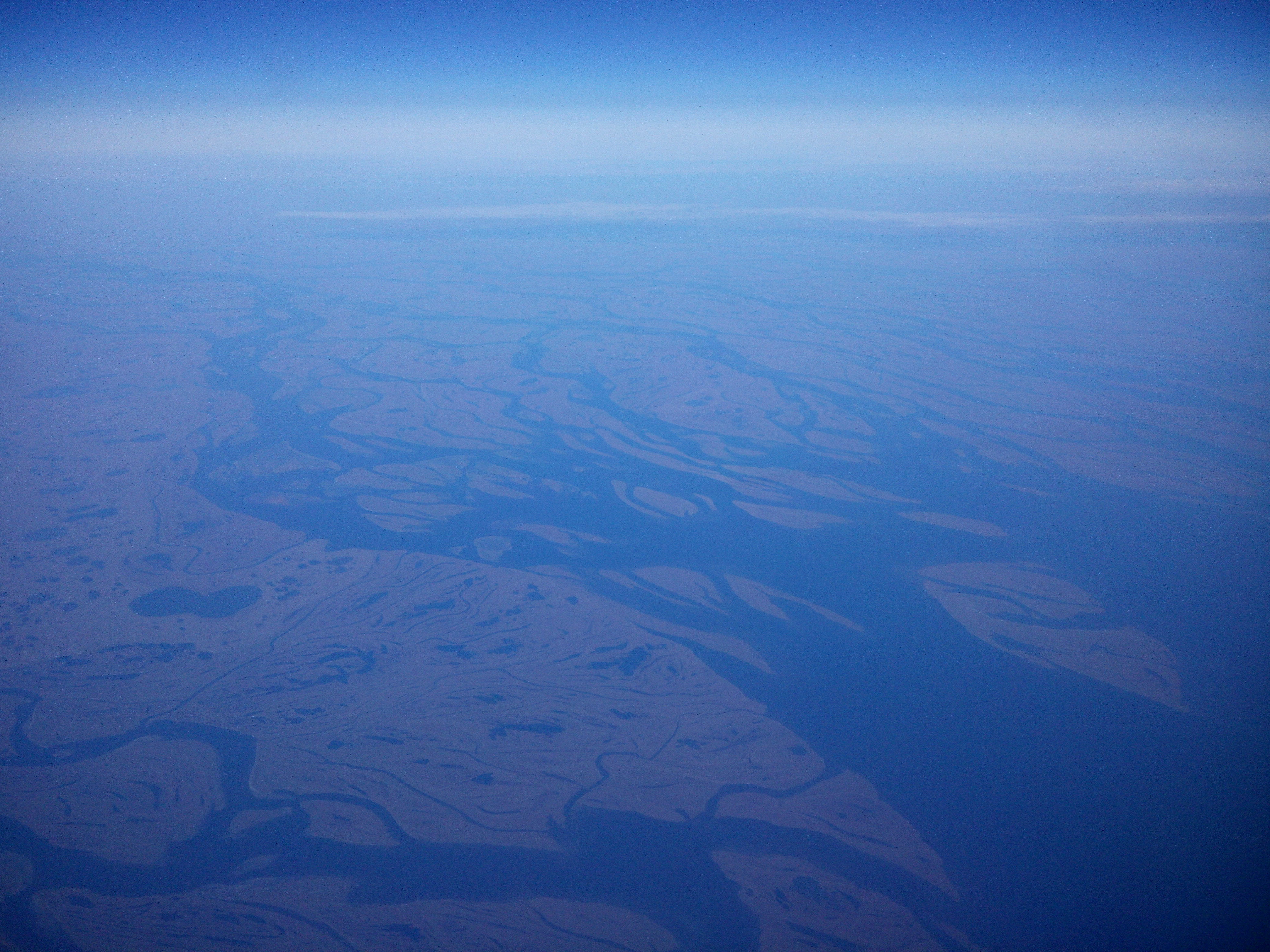 The Lena River Delta in Autumn, taken from my plane in-transit from Chicago to Beijing. Time stamp is definitely not accurate as I don't think my phone was updating as we moved through time zones.